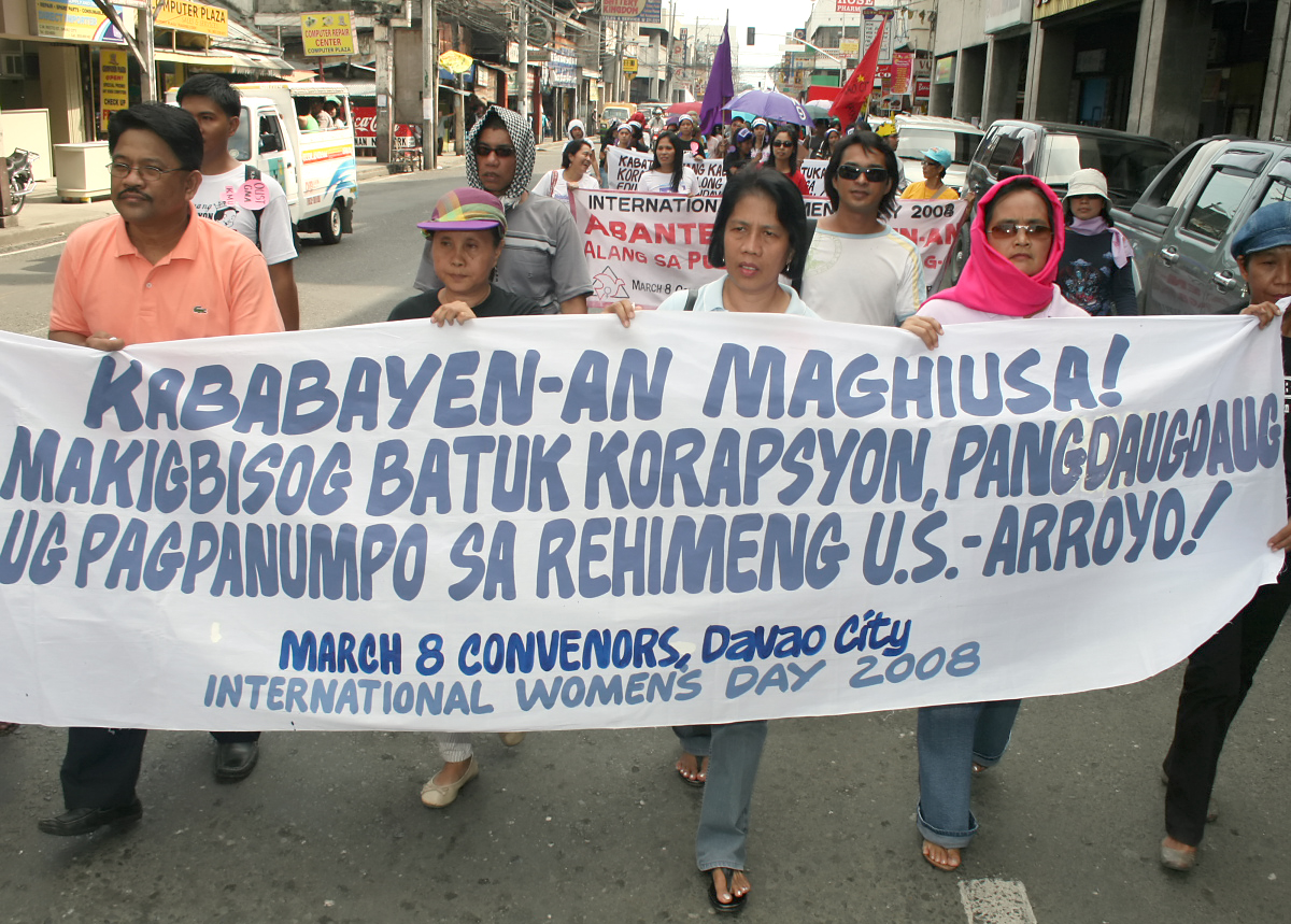 International Women's Day 2008 in Davao City (Philippines).